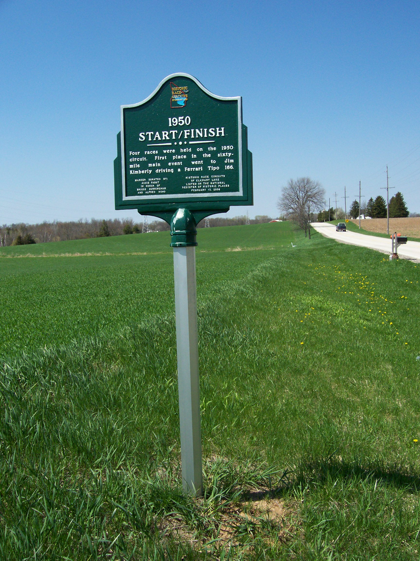 The sign marking the original start/finish line for the Road America racetrack near Elkhart Lake, Wisconsin United States. The original track was listed on the National Register of Historic Places on February 17 2006 according to this image.